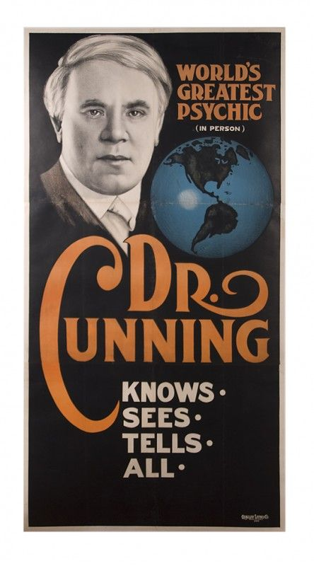 This was a poster used in the period 1918-1922 by Robert 'Bob' Cunningham to promote himself as "Dr Cunning the world's greatest psychic"